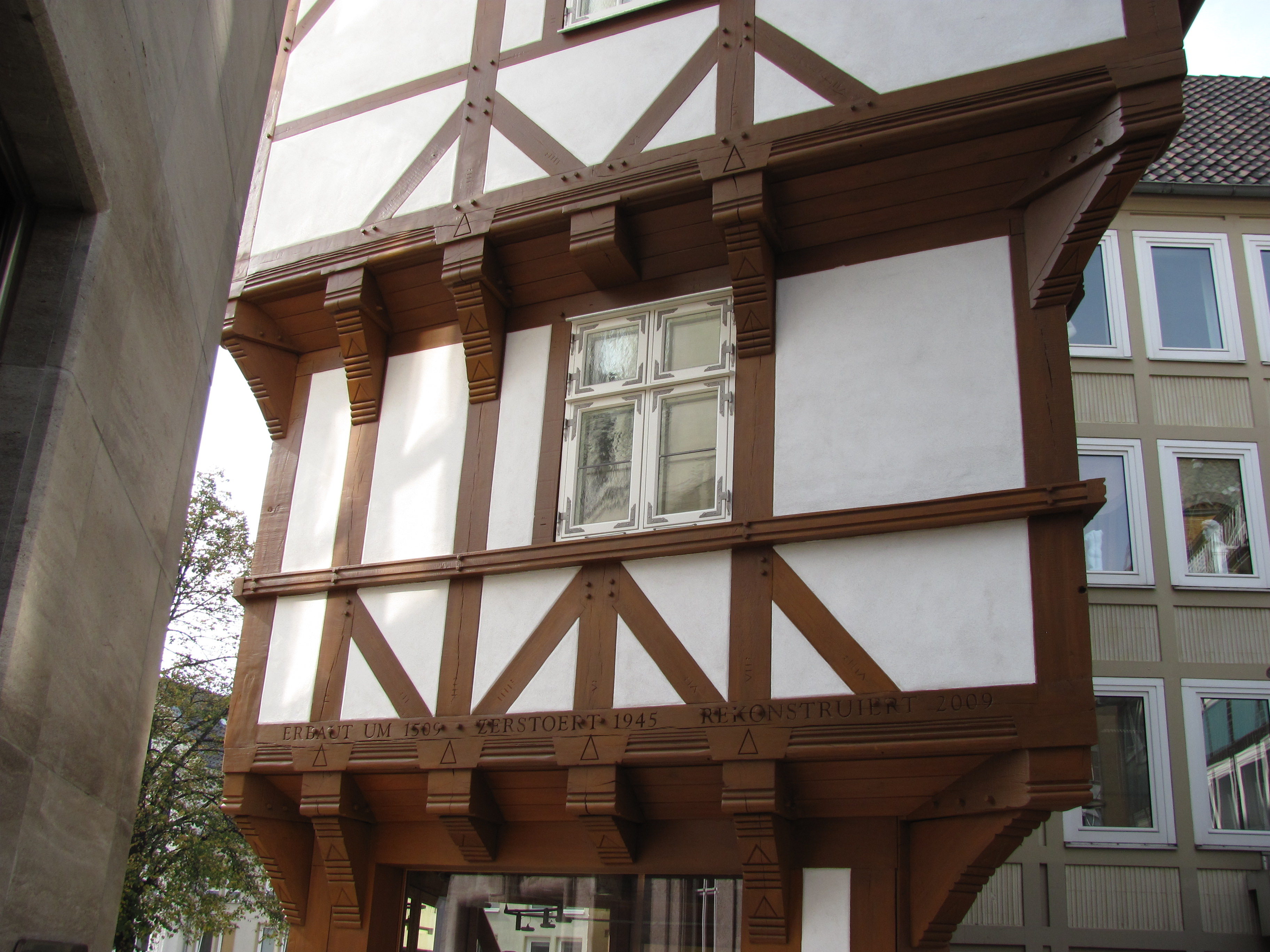 Upended Sugarloaf (built 1509, destroyed 1945, rebuilt 2009), Hildesheim, Germany